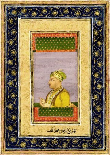 Portrait of Ghazi al-Din Xan ʿImad al-Mulk, with inscription. On paper. Album leaf (verso). British Museum Registration number 1920,0917,0.102